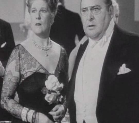 Screenshot of Edward Arnold from the trailer for the film You Can't Take It with You